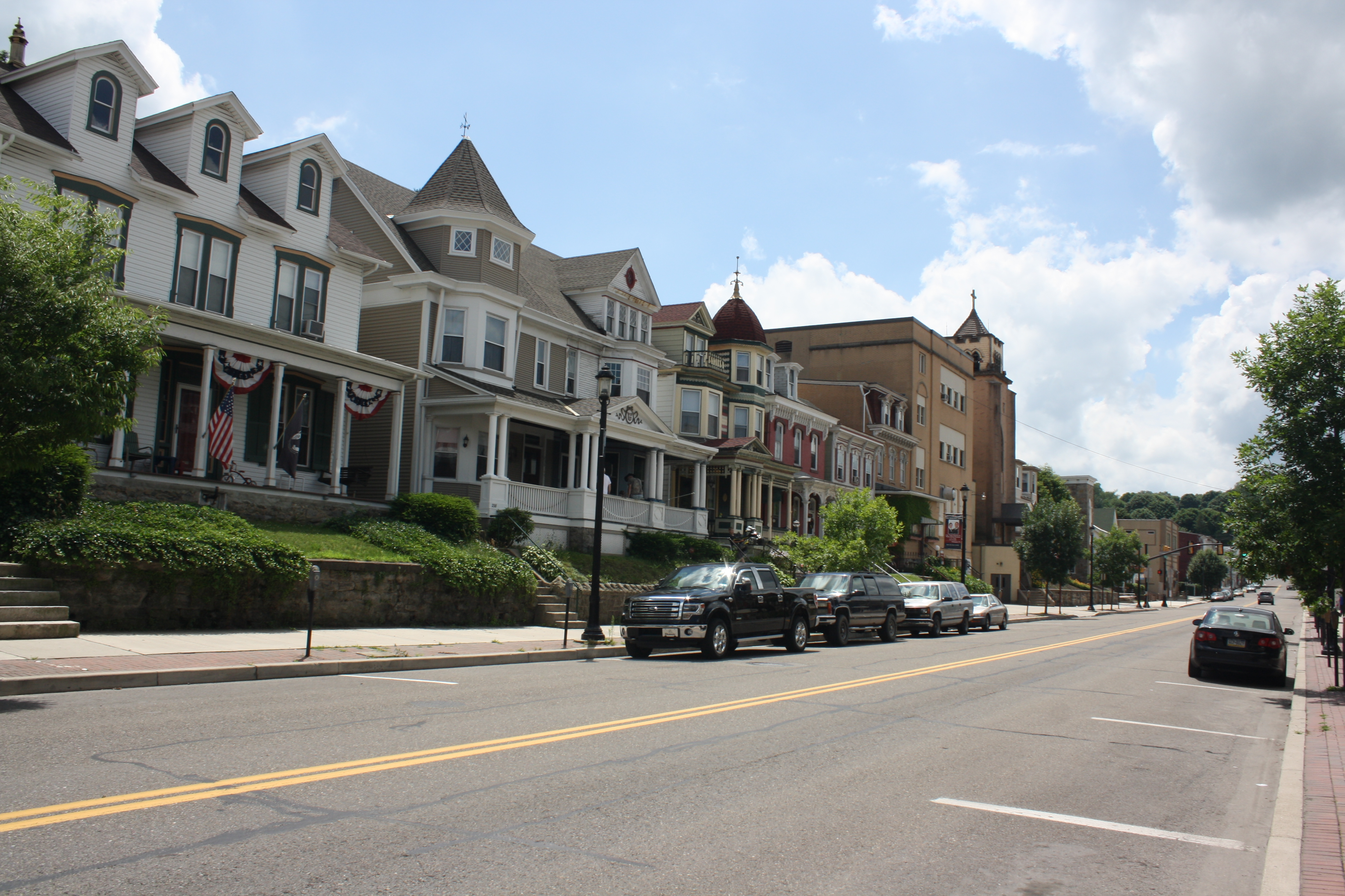 Tamaqua Historic District is a national historic district located at Schuylkill Township and Tamaqua, Schuylkill County, Pennsylvania.